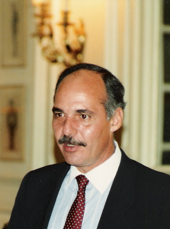 Private amateur photo of President Cristiani taken in London in Sept 1989. No copyright.